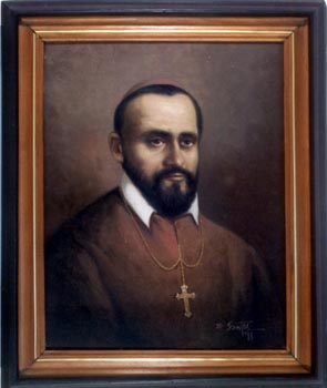 A portrait of Archbishop Juan Angel Rodriguez (1687 - 1742). Juan Angel Rodriguez was Archbishop of Manila from 1737 until his death in 1742.